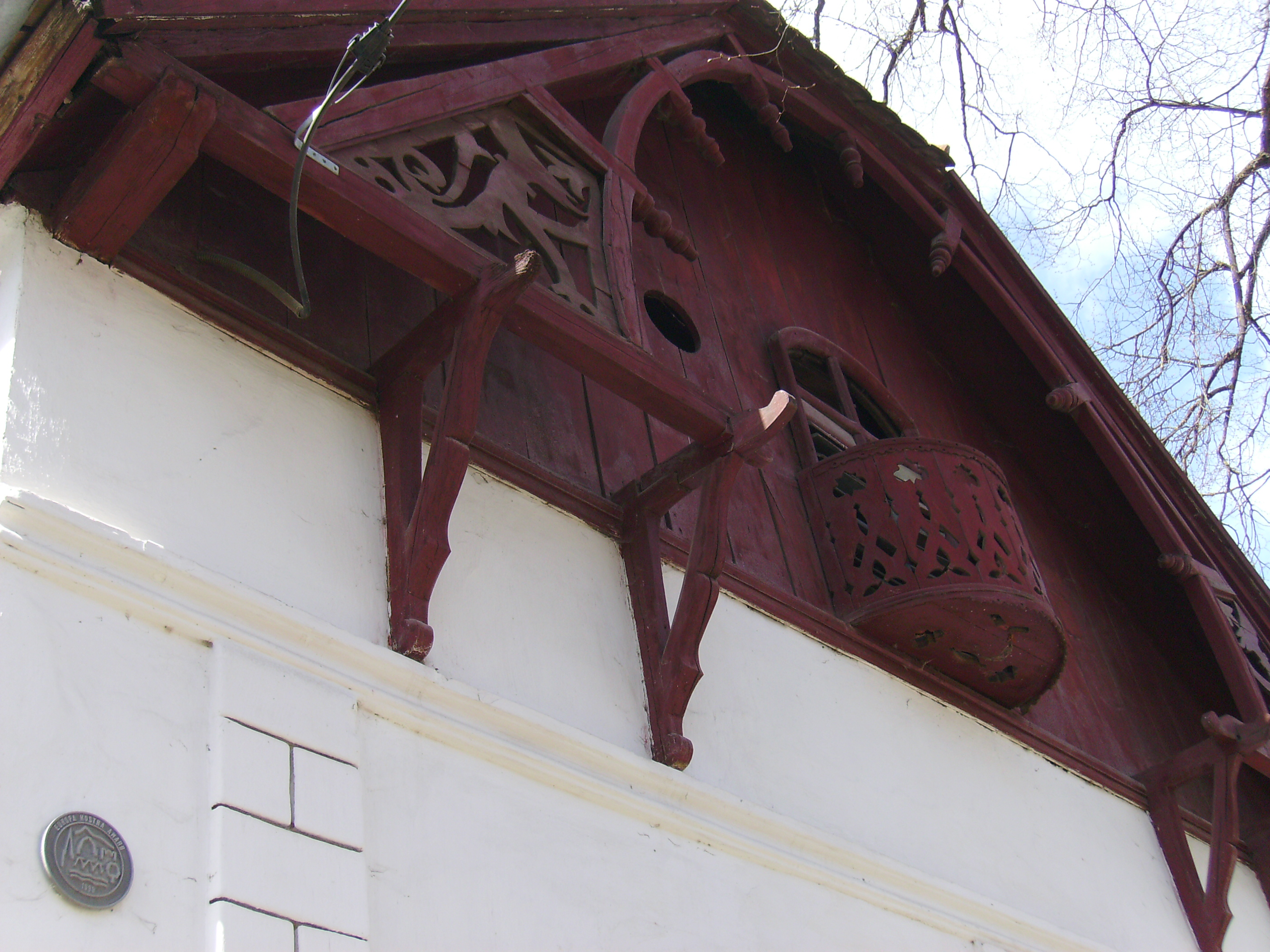 Traditional house in Rimetea, Transylvania, Romania.